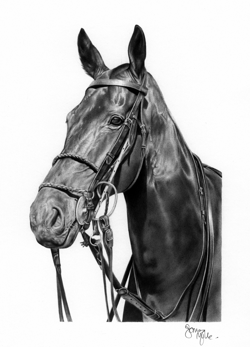 A hand drawn rendering of a polo pony created using a Bic ballpoint pen by James Mylne.